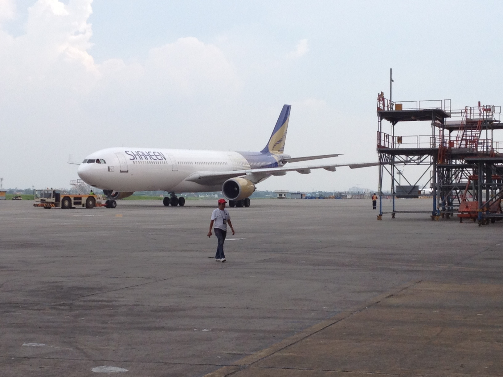 Shaheen Air A330-300 MSN 70